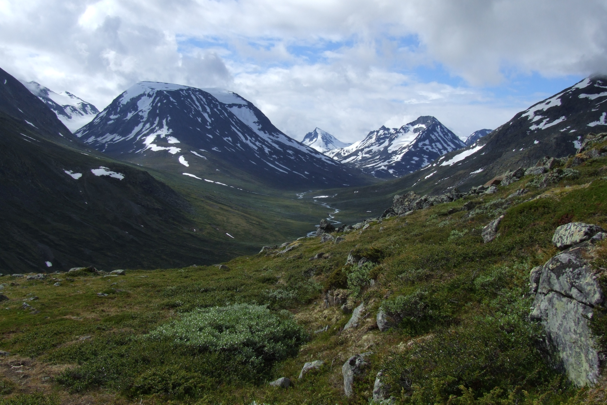 Visdalen valley with Visa river. Jotunheimen mountains, Norway